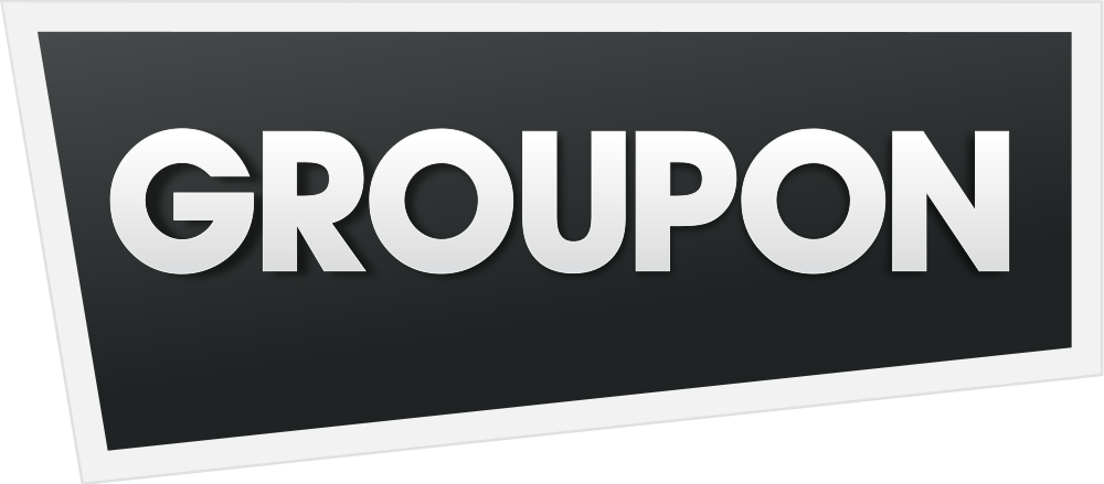 Logo of Groupon